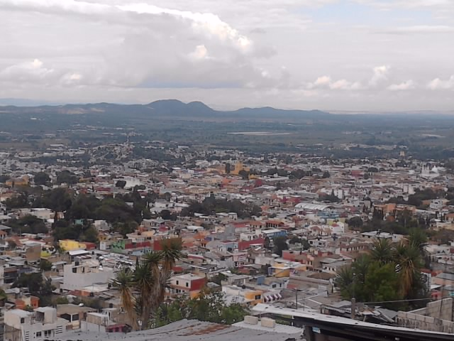 comitan oriente poniente